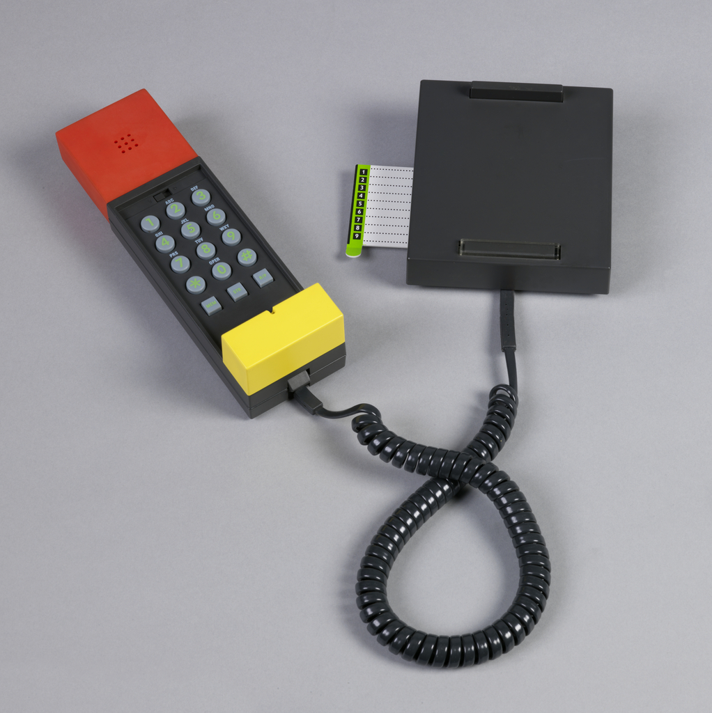 This is a photograph of a telephone designed by Ettore Sottsass and David Kelly (IDEO). The phone was released in 1986.